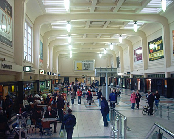 City Station, in 2004.